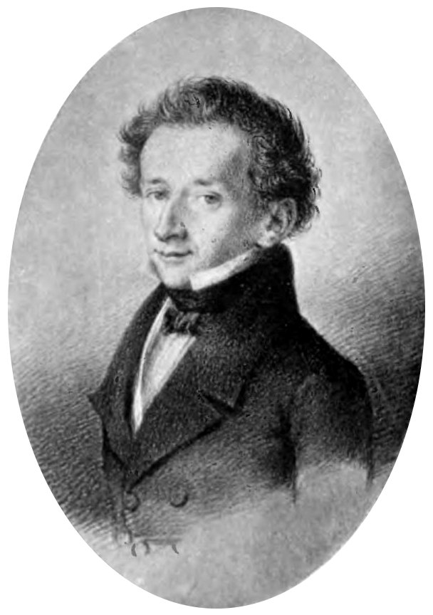 Giuseppe Chiarini: An illustration from the book Vita di Giacomo Leopardi. Firenze: G. Barbèra, 1905., djvu page 12, with a portrait of Giacomo Leopardi when 28 years old, caption "GIACOMO LEOPARDI a 28 anni. Da una copia del disegno di Luigi Lolli."